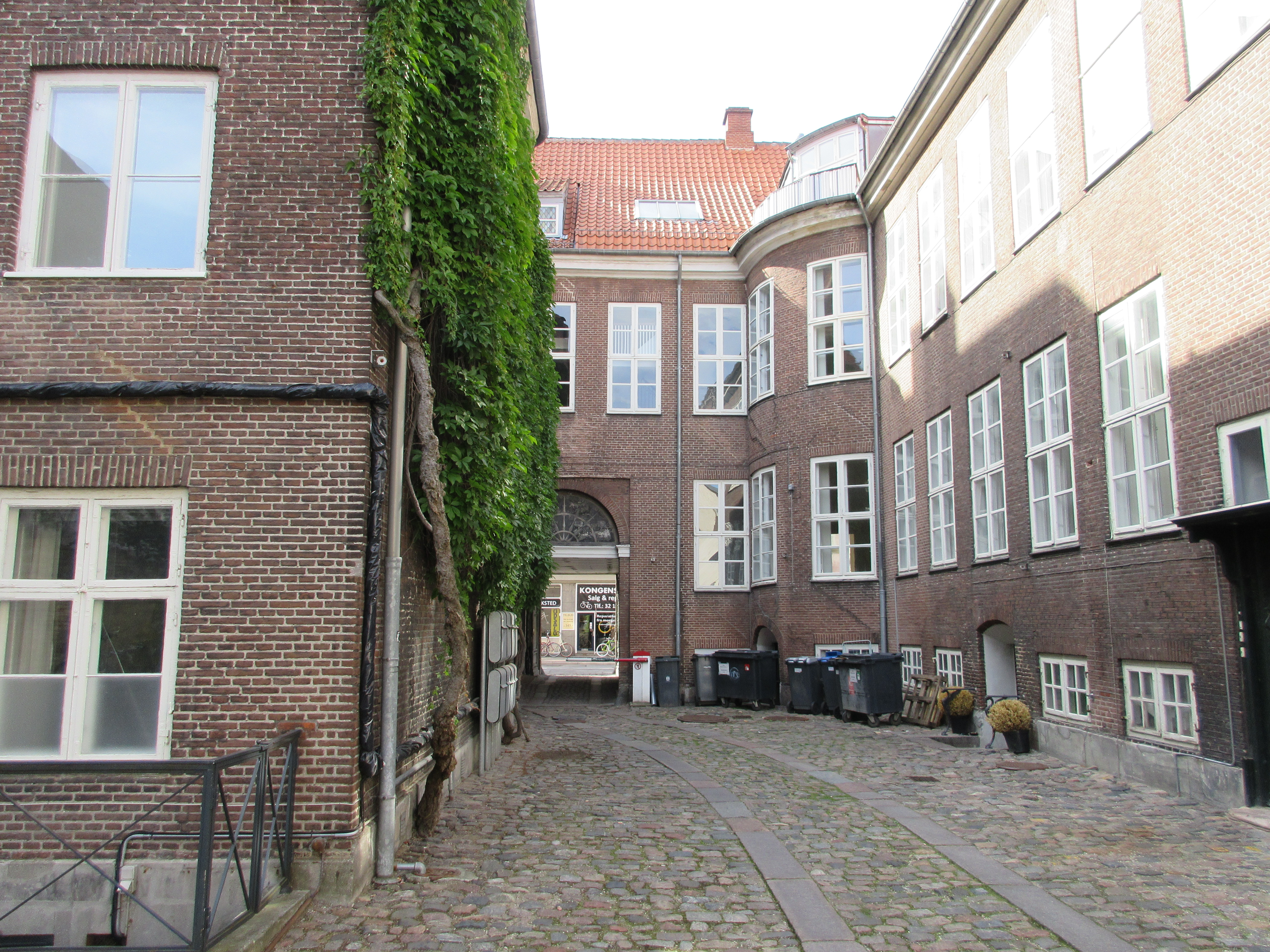 De Coninck House at Store Kongensgade 72 in Copenahgen, Denmark